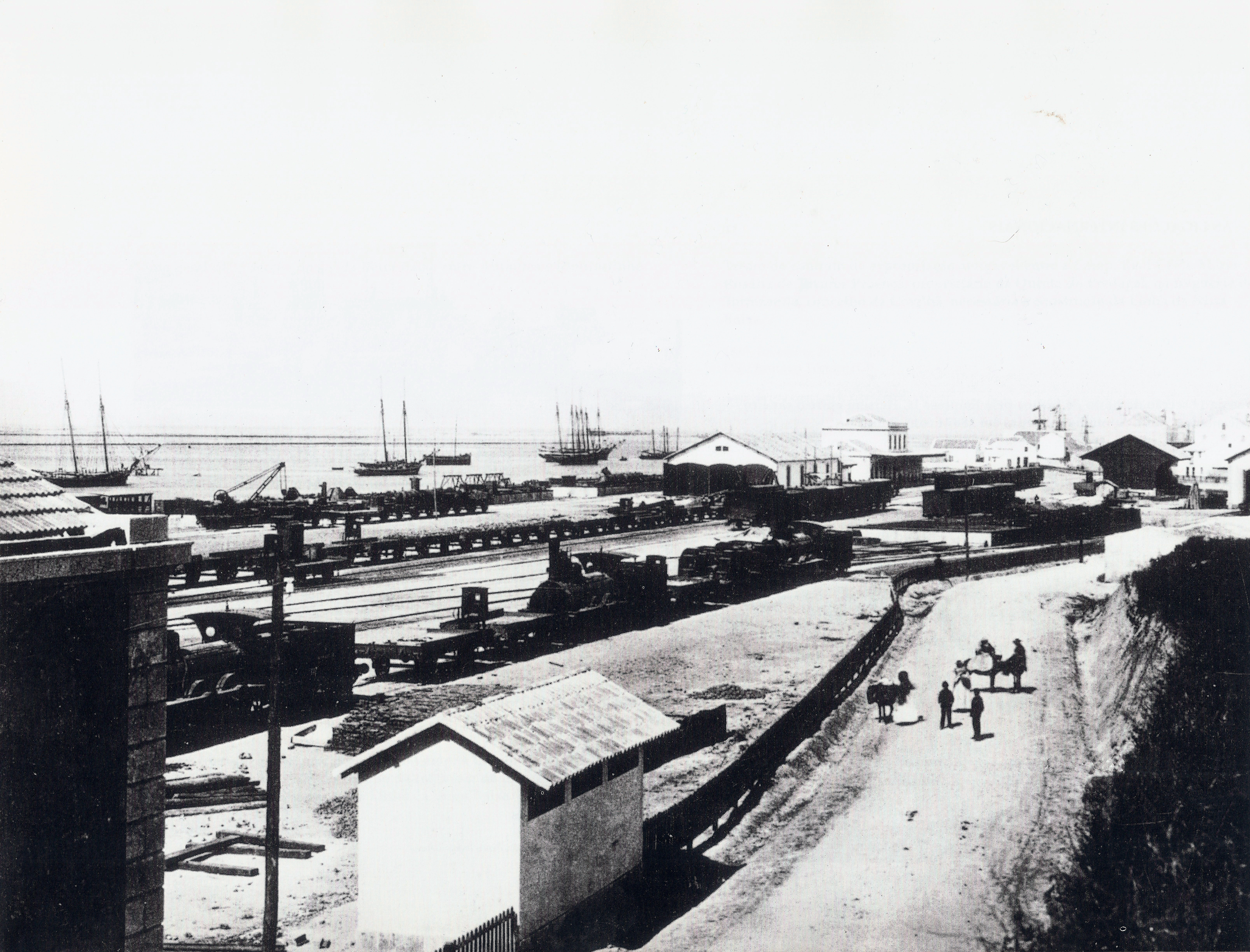 Figueira da Foz Railway Station, in Portugal.